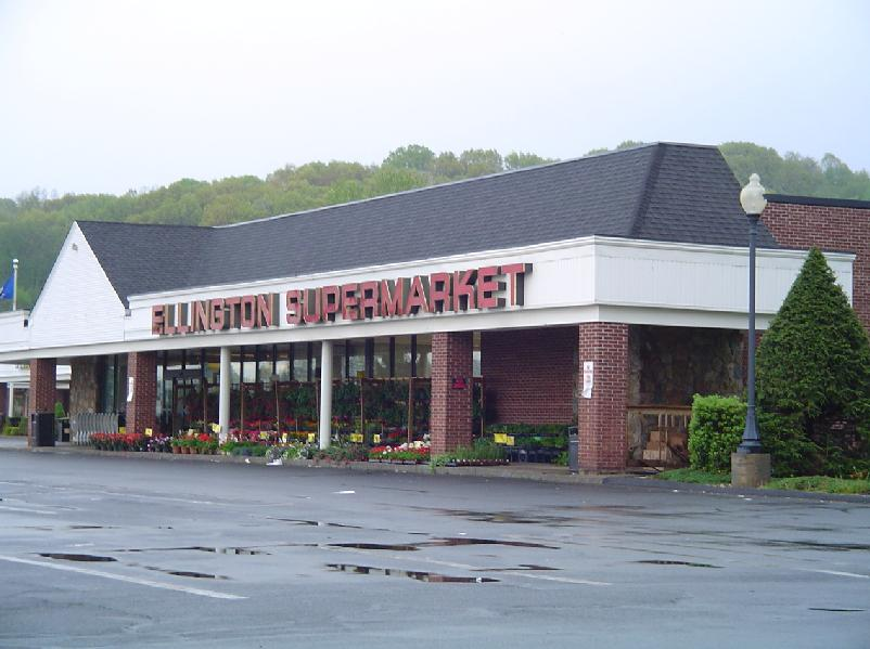 The Ellington Supermarket exterior, May 2006.